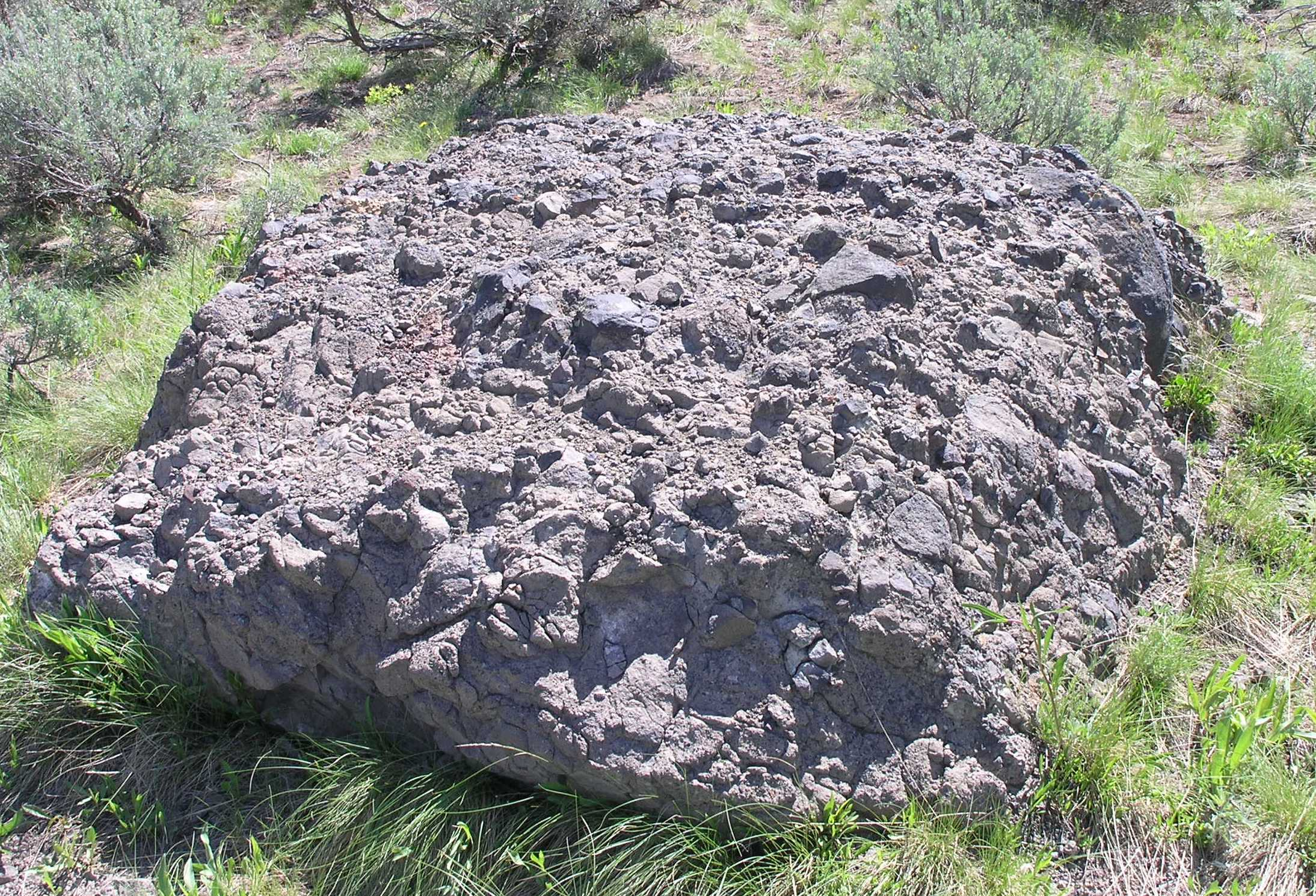 Photo in or around Grand Teton National Park